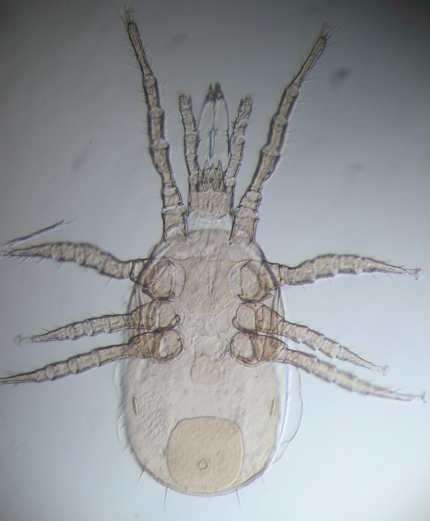 Weibchen von Arctoseius magnanalis